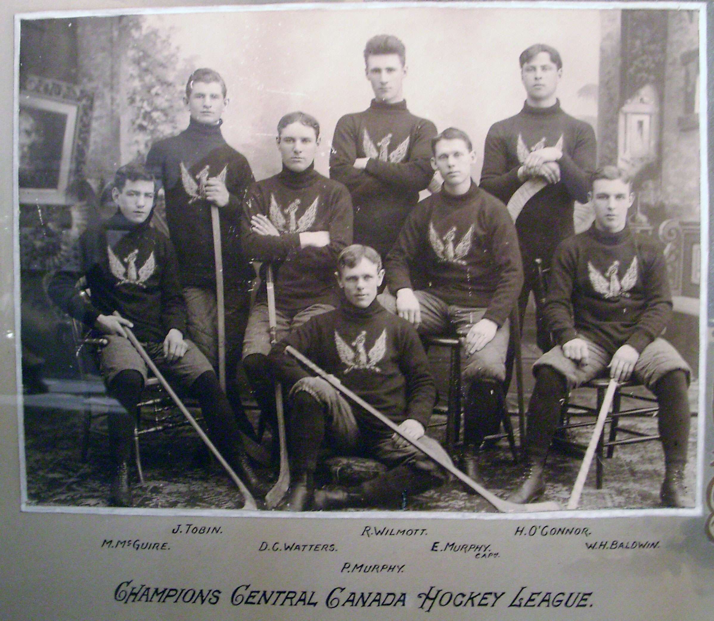 Photograph of Ottawa Capitals senior hockey team, 1897. Stanley Cup challengers in 1898.